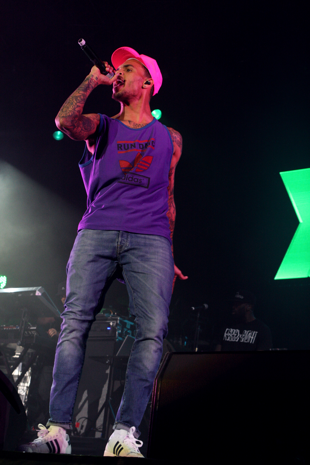 Supafest 2012, Sydney, Australia; Chris Brown, Kelly Rowland, Lupe Fiasco, Naughty By Nature and more